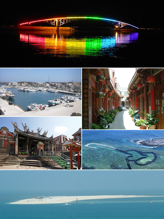 Montage of various Penghu County images.